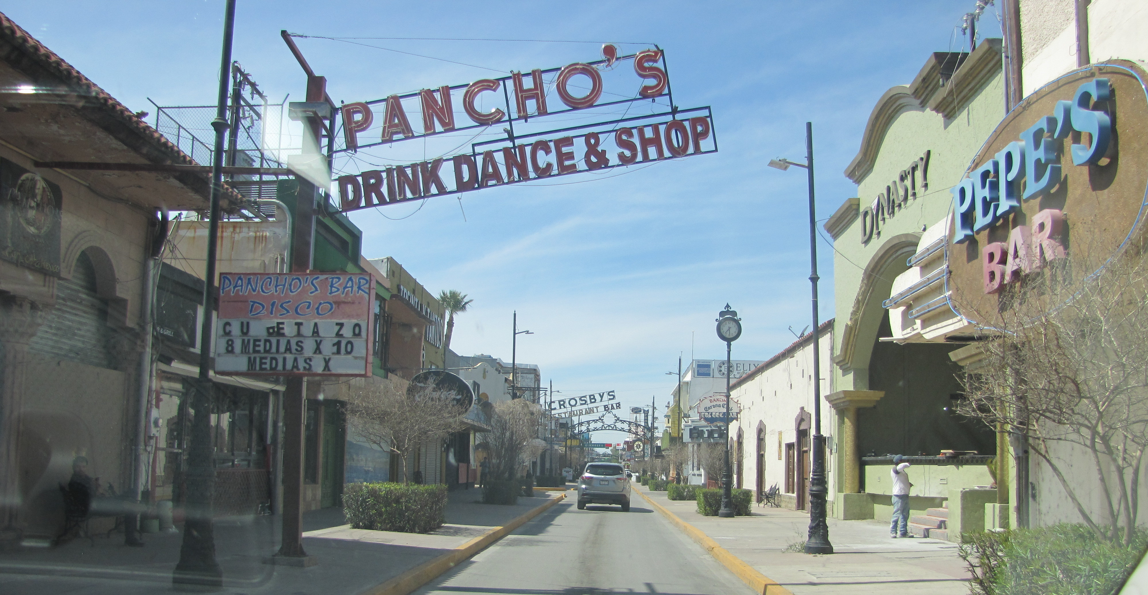 Located just by the international bridge, this street provides bars and entertainment mostly for USA population crossing the border